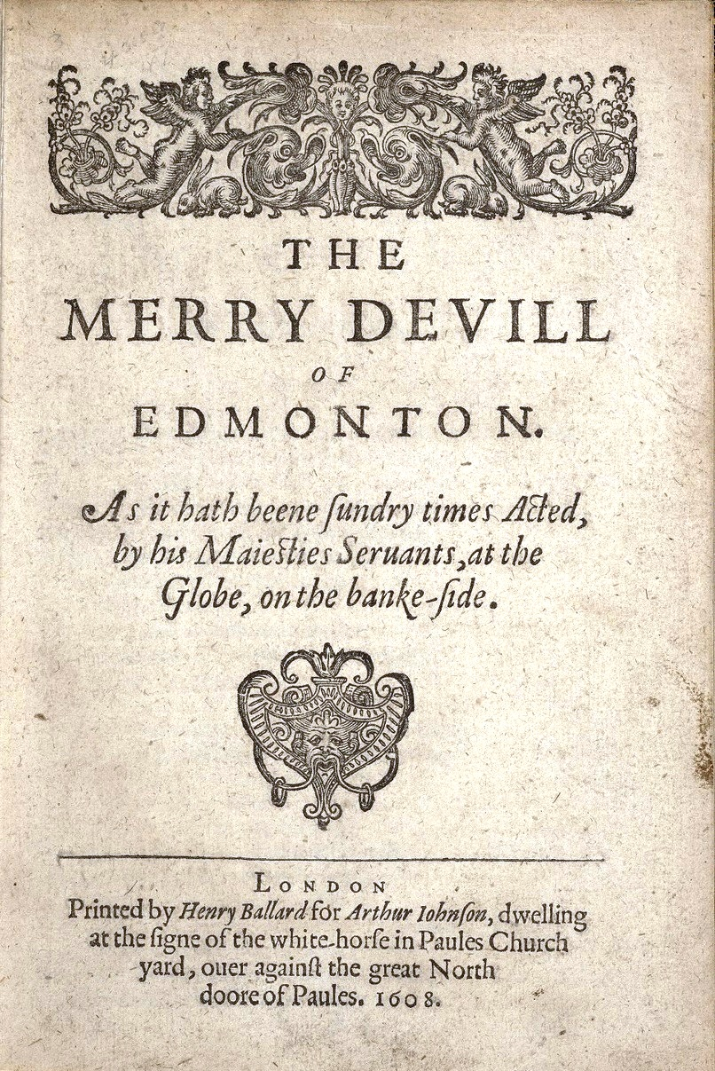 Title page of The Merry Devil of Edmonton published in London